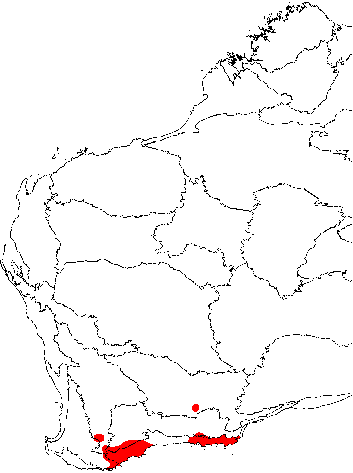 This is a map of Western Australia, showing the distribution of Banksia nutans (Nodding Banksia) superimposed on a background of the IBRA 6.1 biogeographic regions.